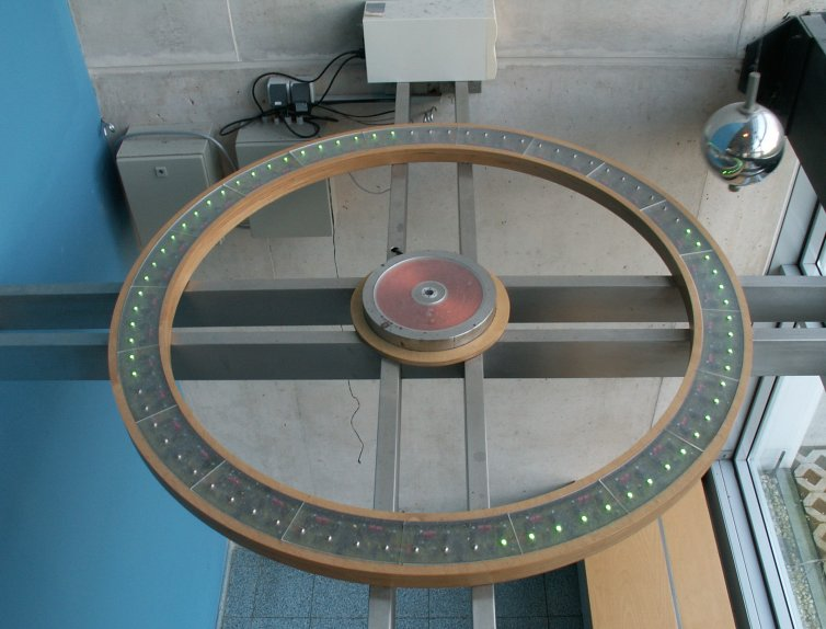 Foucault Pendel at the university of Koblenz